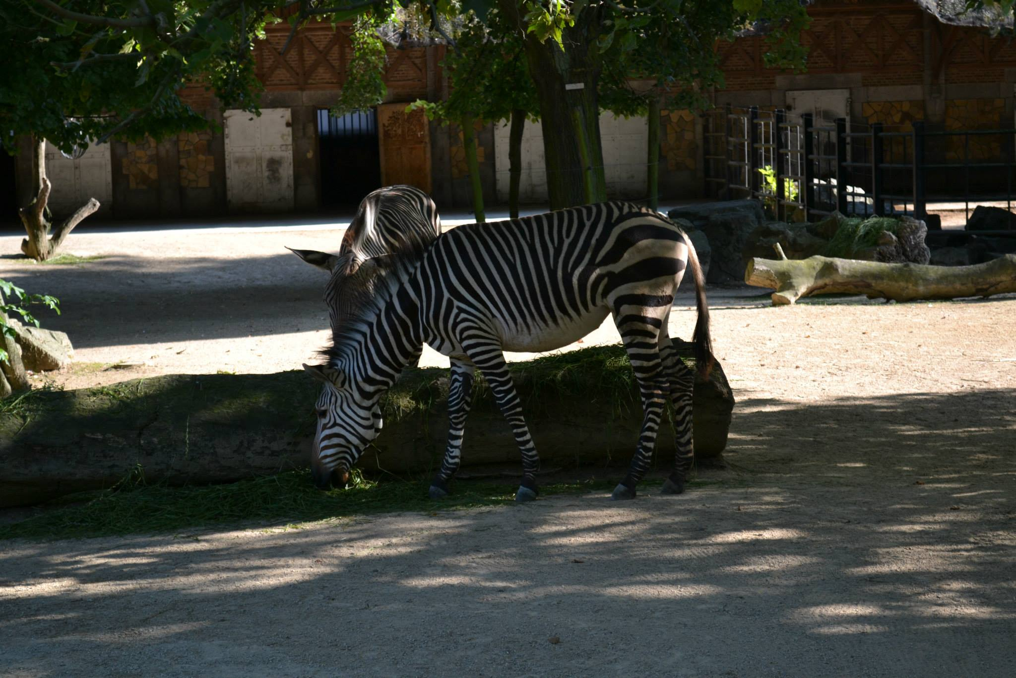 Zebra in ZOO Antwerpen